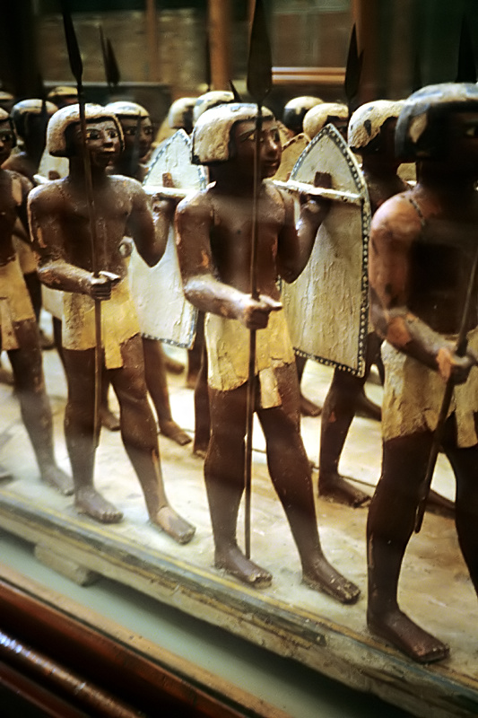 Wooden model of Egyptian lance warriors from the tom of Mesehti, CG 258, JE 30986, Asyut, Egyptian Museum of Cairo, Egypt